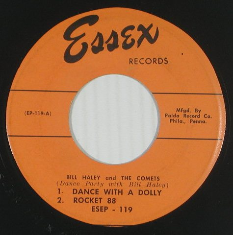 Dance with a Dolly and Rocket 88 by Bill Haley and the Comets, Essex 1954. EP title: Dance Party with Bill Haley.